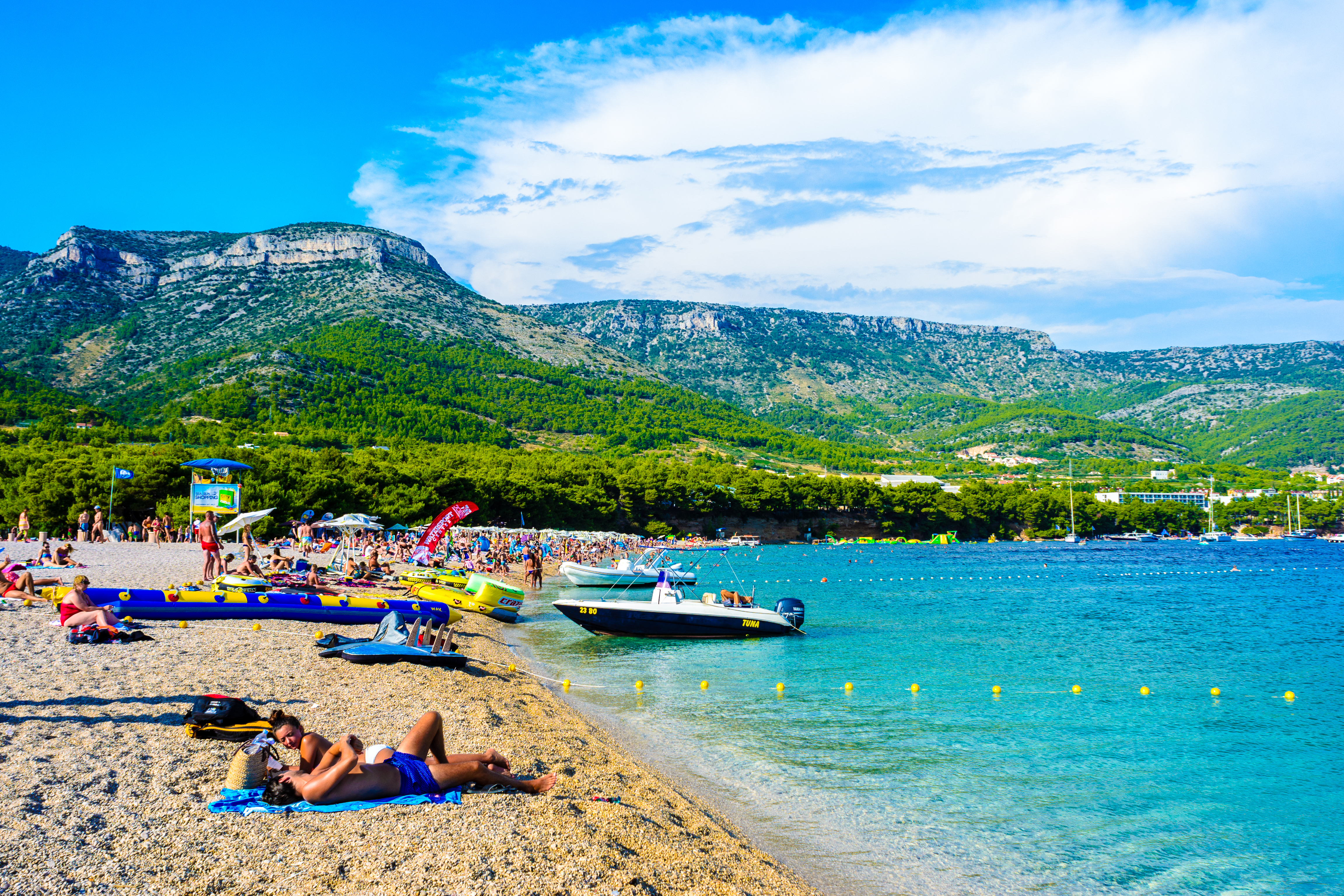 Island Brac